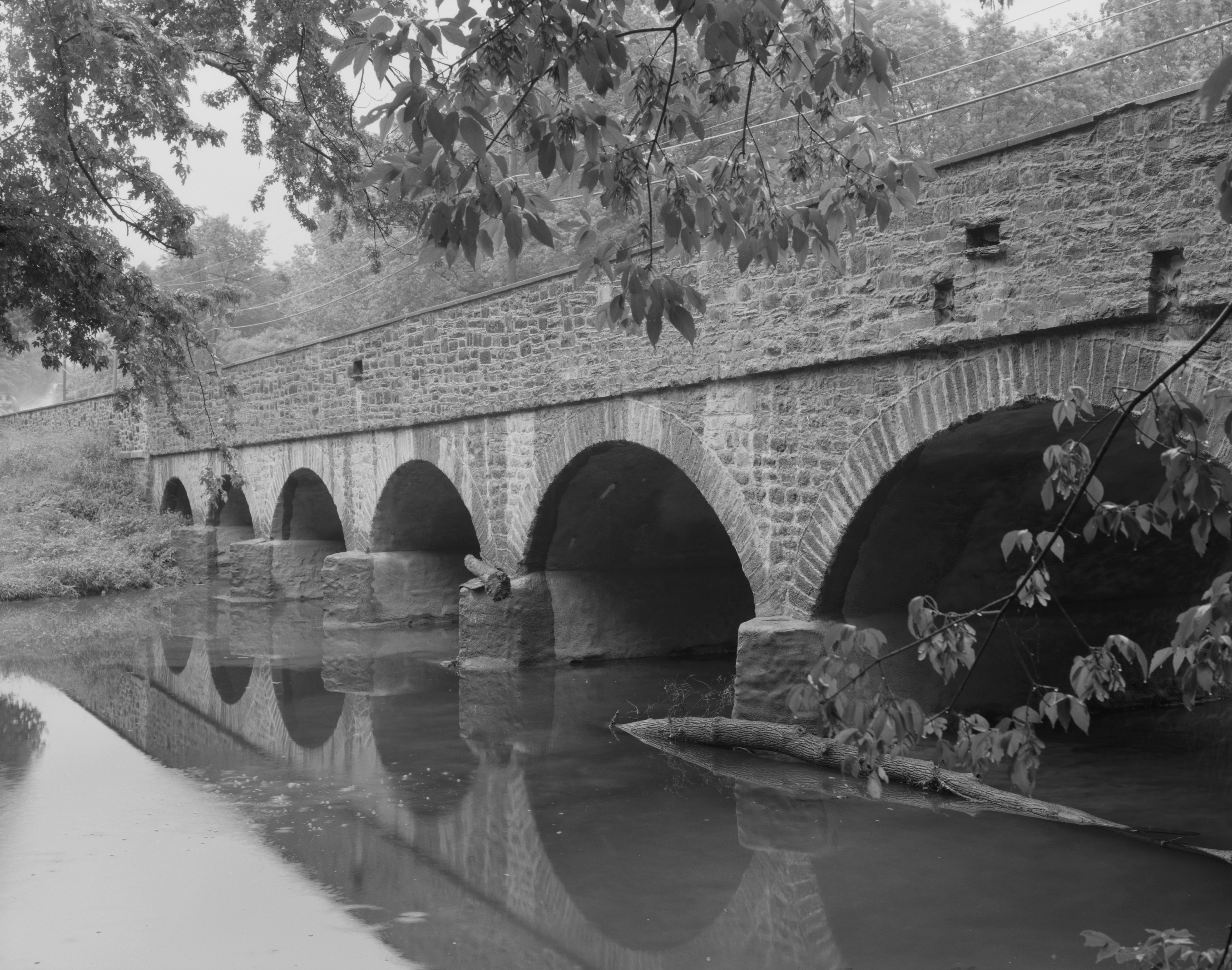 Skippack Stone Arch Bridge, Spanning Skippack Creek at Germantown Pike, Skippack (Montgomery County, Pennsylvania).